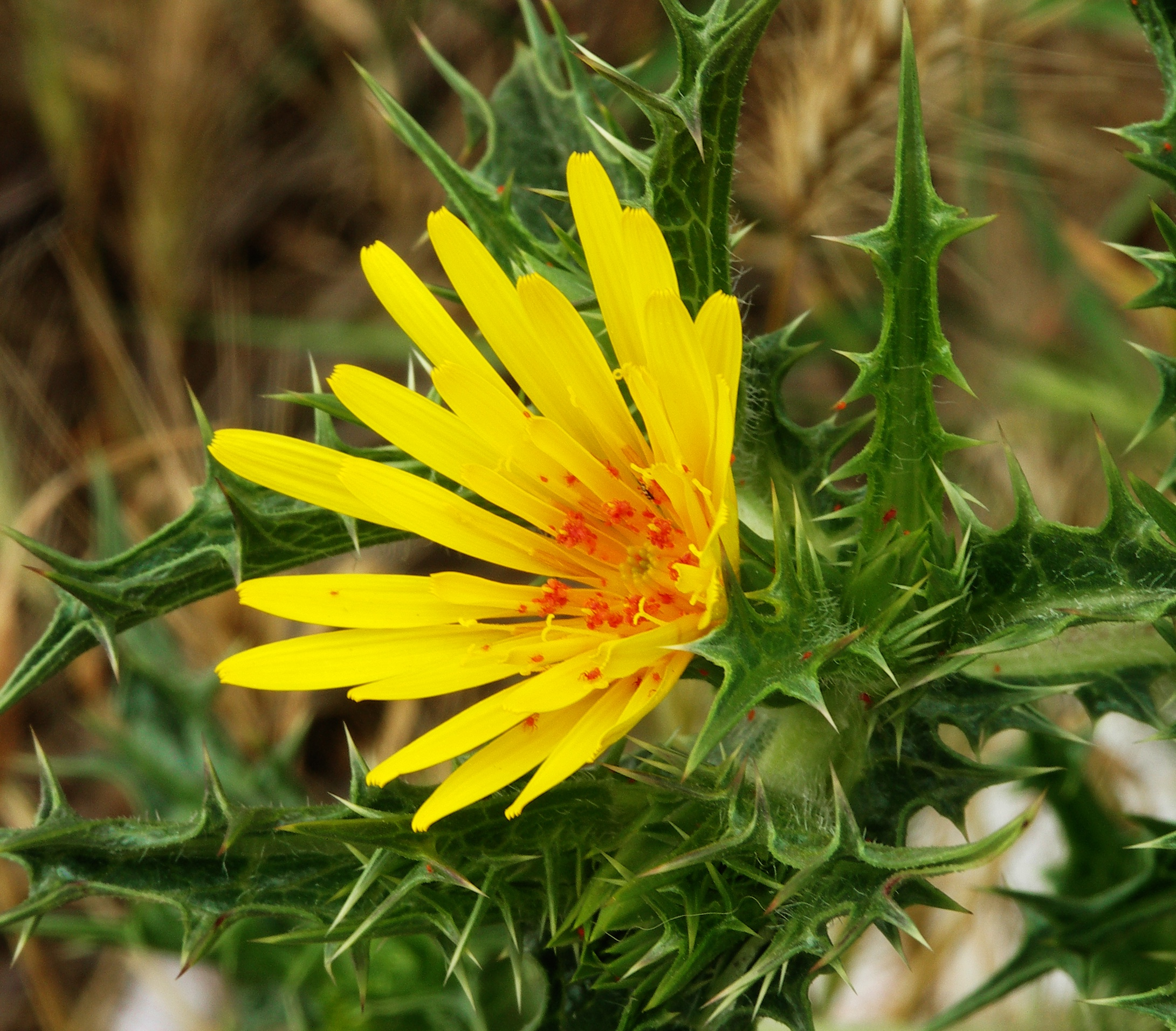 Spanish oyster flower (Scolymus hispanicus) with mites and beetles